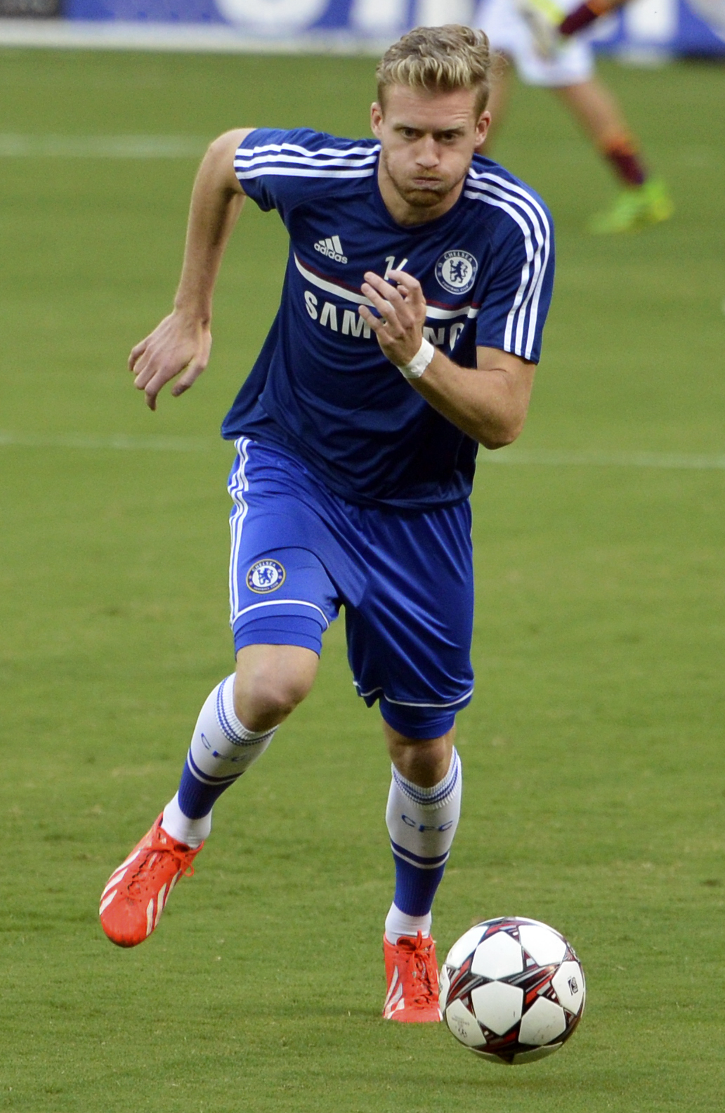 André Schürrle warming up prior to the Chelsea FC vs. A.S. Roma friendly. (Robert F. Kennedy Memorial Stadium, a.k.a. RFK a.k.a. DC United's Home Field)